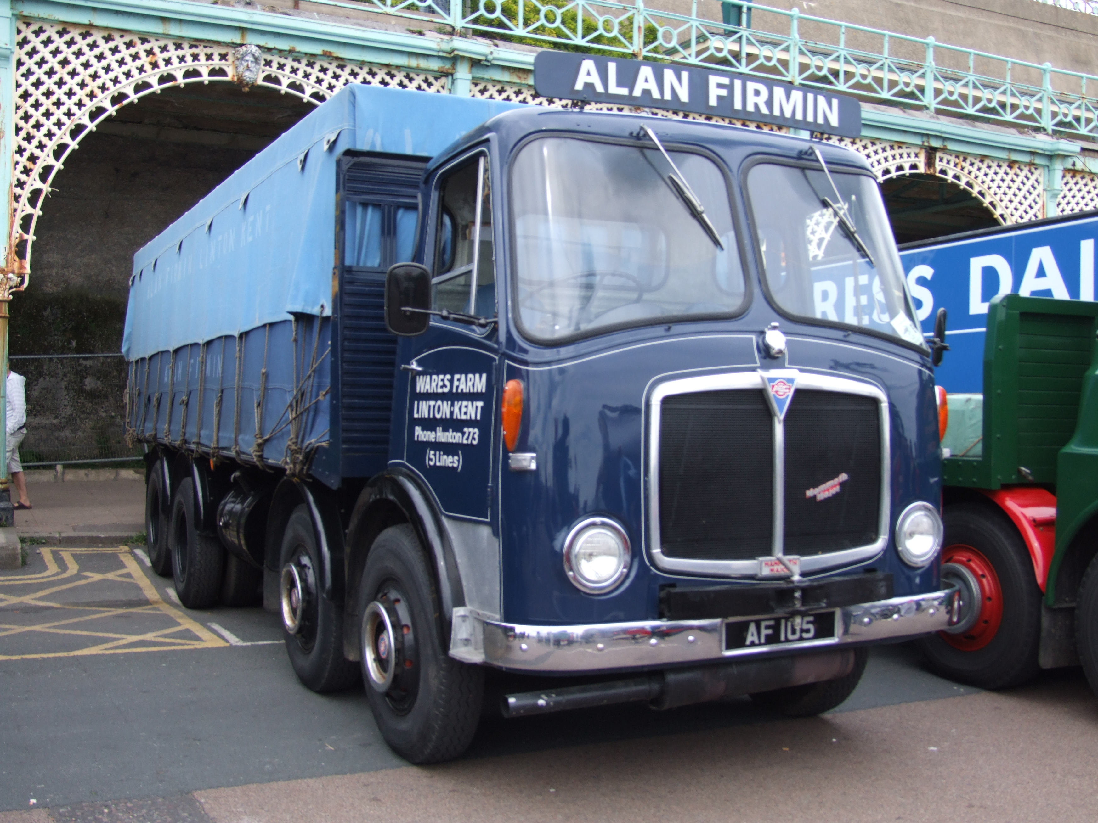 During my youth spent in Kent I saw a large number of these lorrys so it was nice to see one restored.